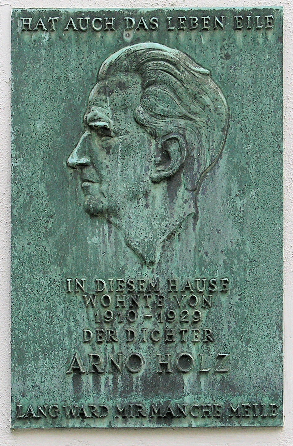 Memorial plaque, Arno Holz, Stübbenstraße 5, Berlin-Schöneberg, Germany Koordinate:52°29′22″N 13°20′17″E / 52.48944°N 13.33806°E